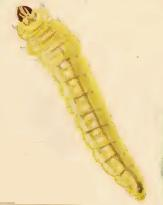 Stainton’s Natural History of the Tineina (1855–1873): Phyllonorycter salictella larva